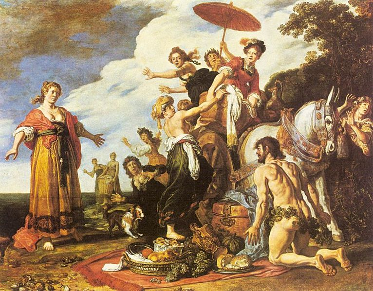 Odysseus and Nausicaa.